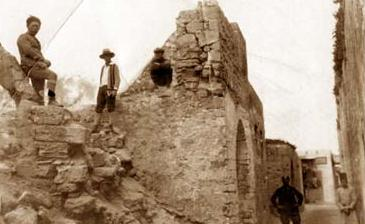 An apparently ruined Hamam as-Sammara in Gaza